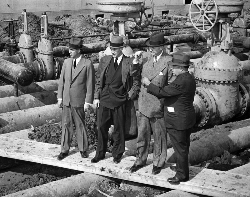 Ralph K. Davis, George Hull, W. Alton Jones, and Burt Hull at the “Big Inch” opening (February 19, 1943). Petroleum Administration for War. NARA 253-CD-17-19.